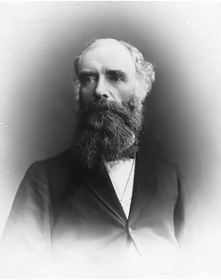 Donald Alexander Smith, 1st Baron Strathcona and Mount Royal (Original text: “'Donald Alexander Smith, later Lord Strathcona, National Archives of Canada, C-5489 PD-Canada updated file cleaned up in paintshop'”)